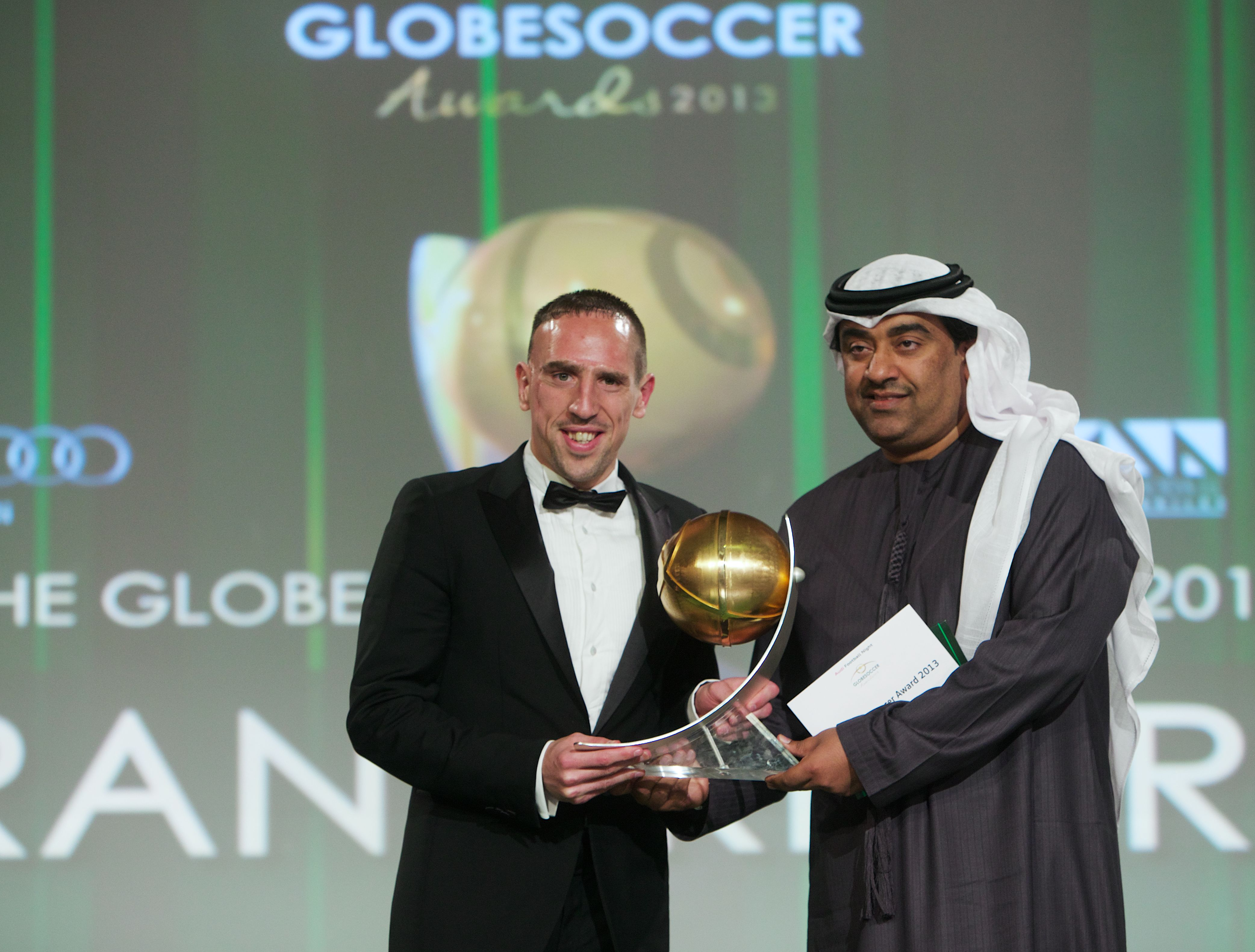 Franck Ribéry - THE GLOBE SOCCER AWARDS